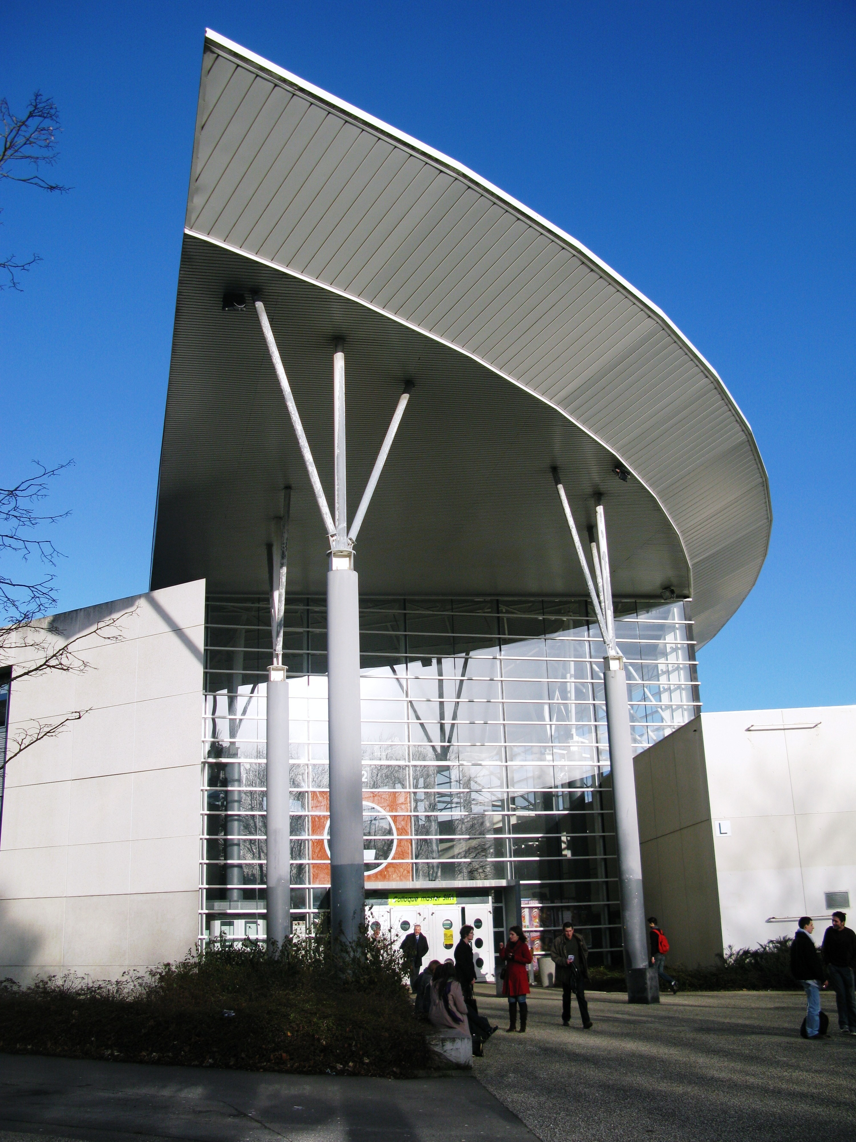 Building houssing the foreign languages departements in the University of Rennes2, France.